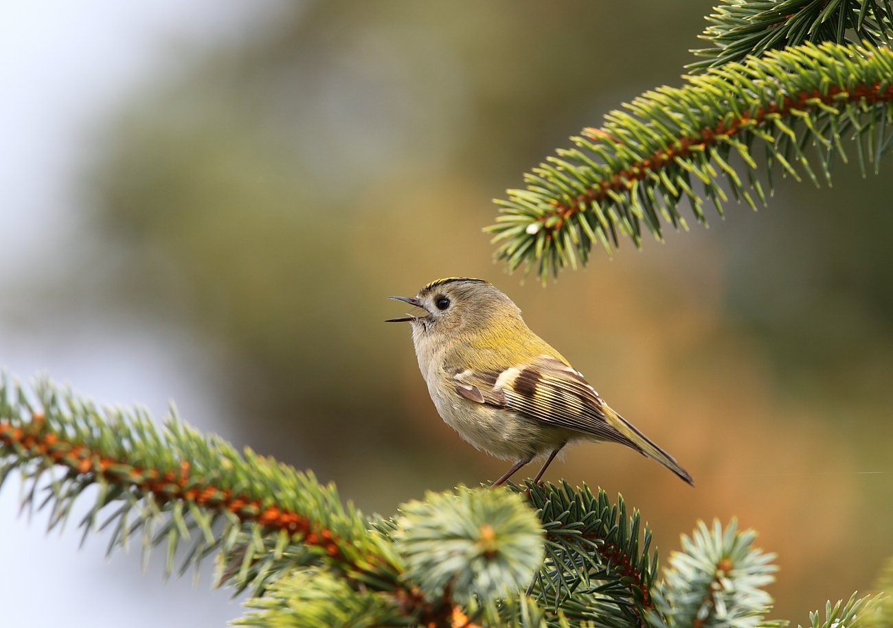 GoldcrestLatina: Regulus regulus